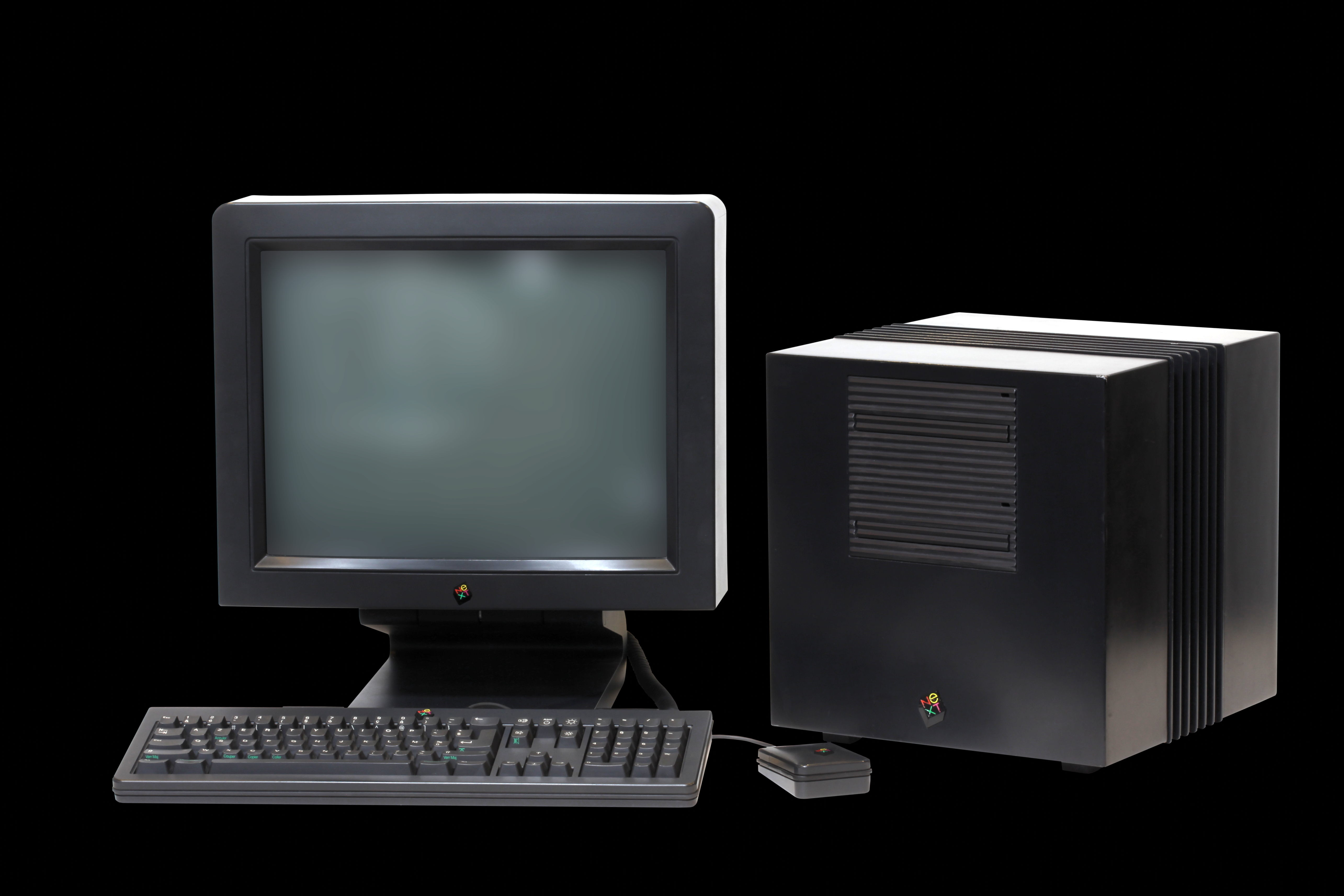 NeXTcube workstation. On display at the Musée Bolo, EPFL, Lausanne.